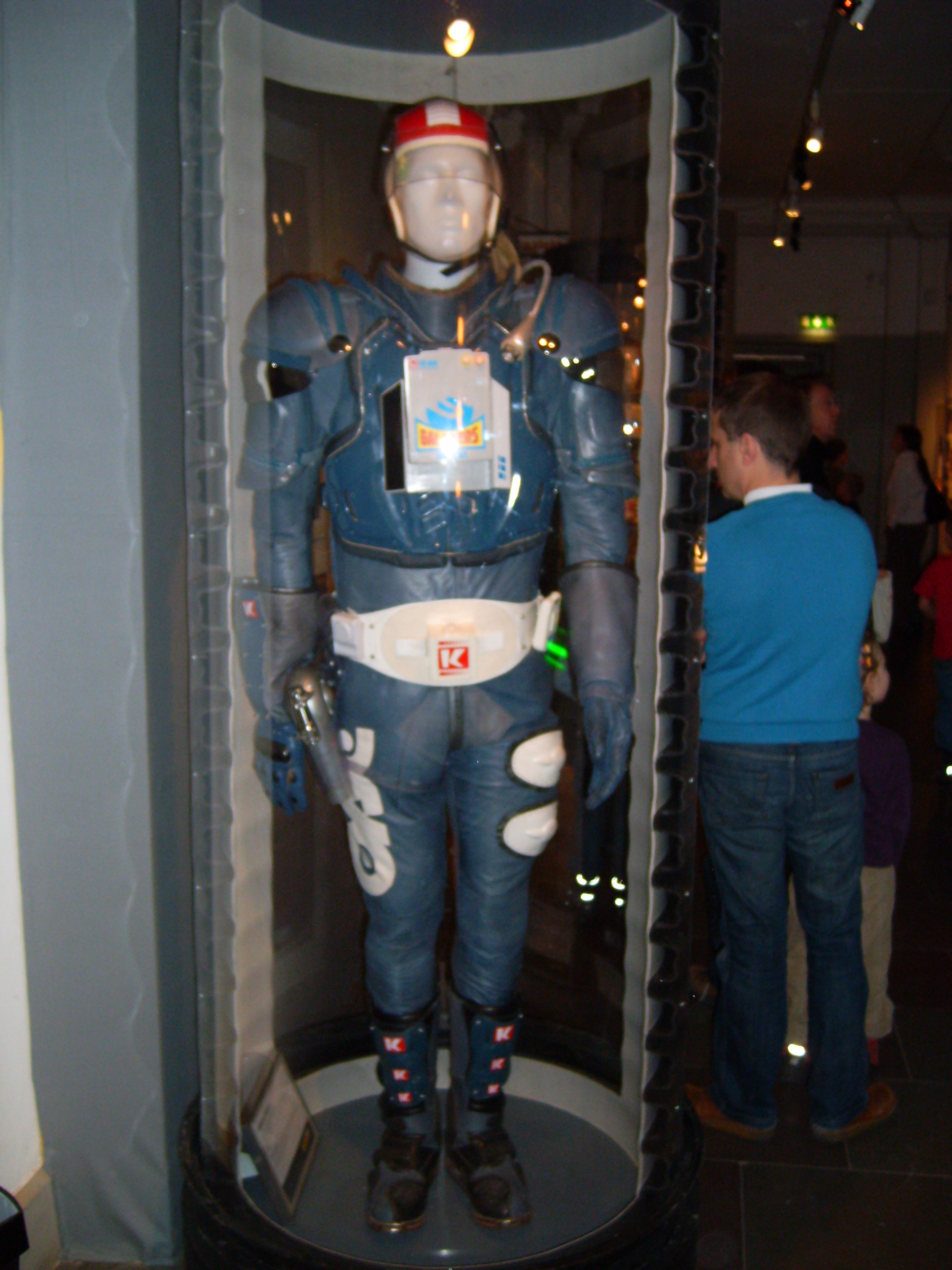 Suit from Swedish TV serie Kenny Starfighter at Stockholm City Museum.